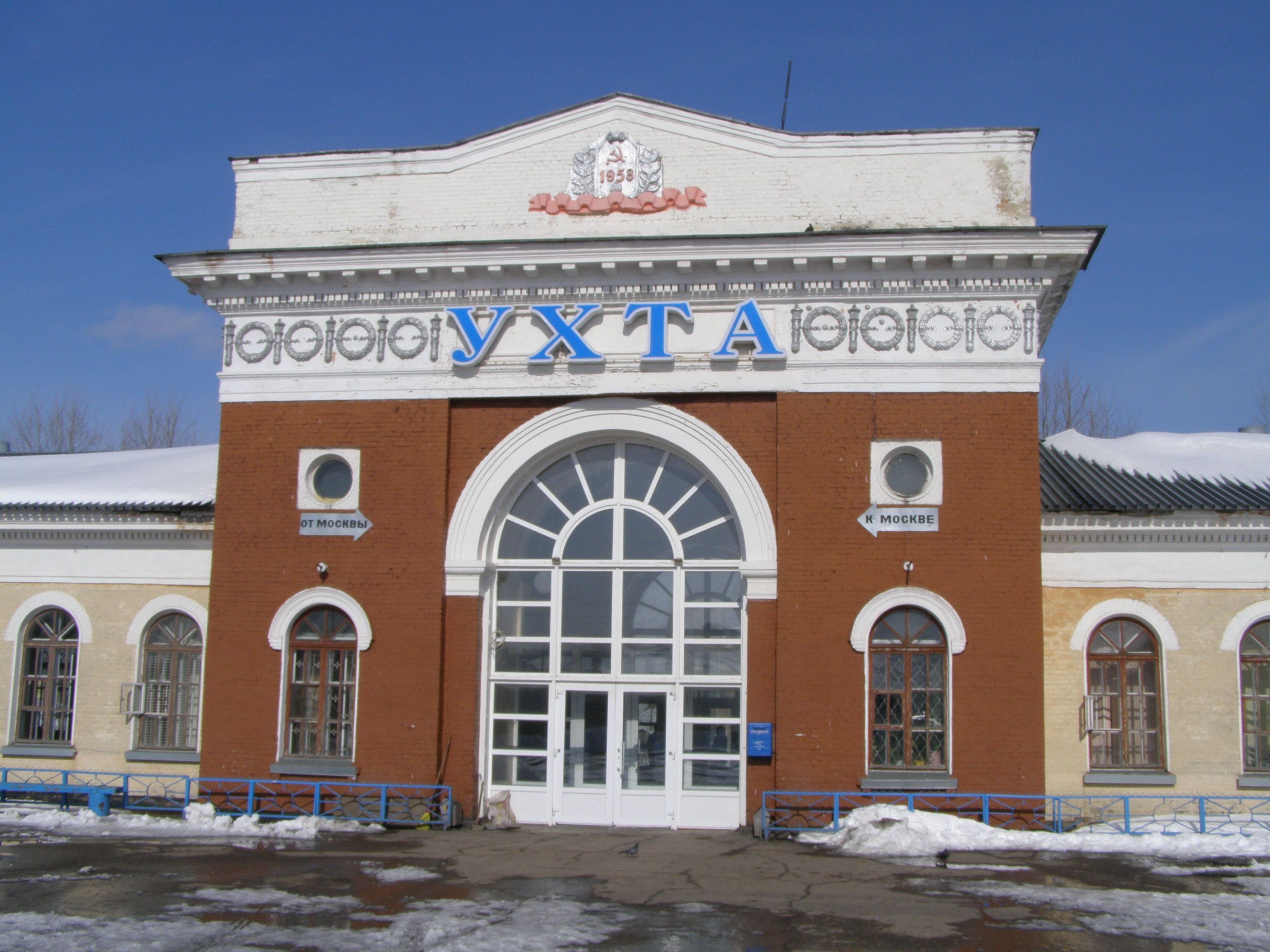 Ukhta railway station